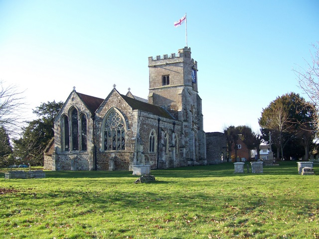 Church of St Mary the Virgin, Fordingbridge The parish church dedicated to St Mary is mainly Early English but the tower is Perpendicular.